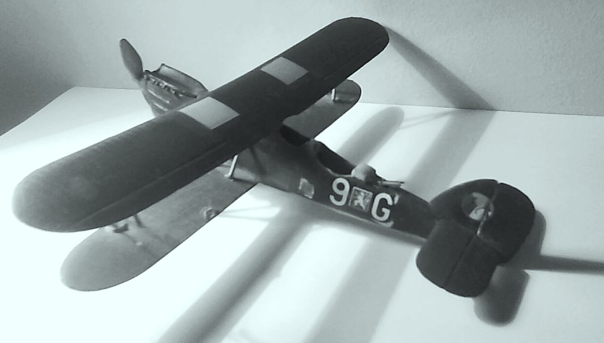 This is a 1/72 scale model of Czechoslovakian bomber Aero A 100 of 1930´s